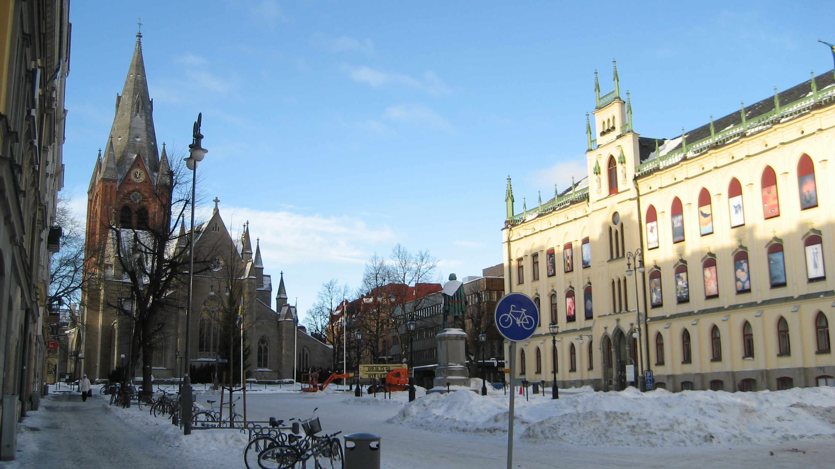 Stortorget, Örebro, Sweden. Left: Sankt Nicolai kyrka. Right: Örebro town hall.